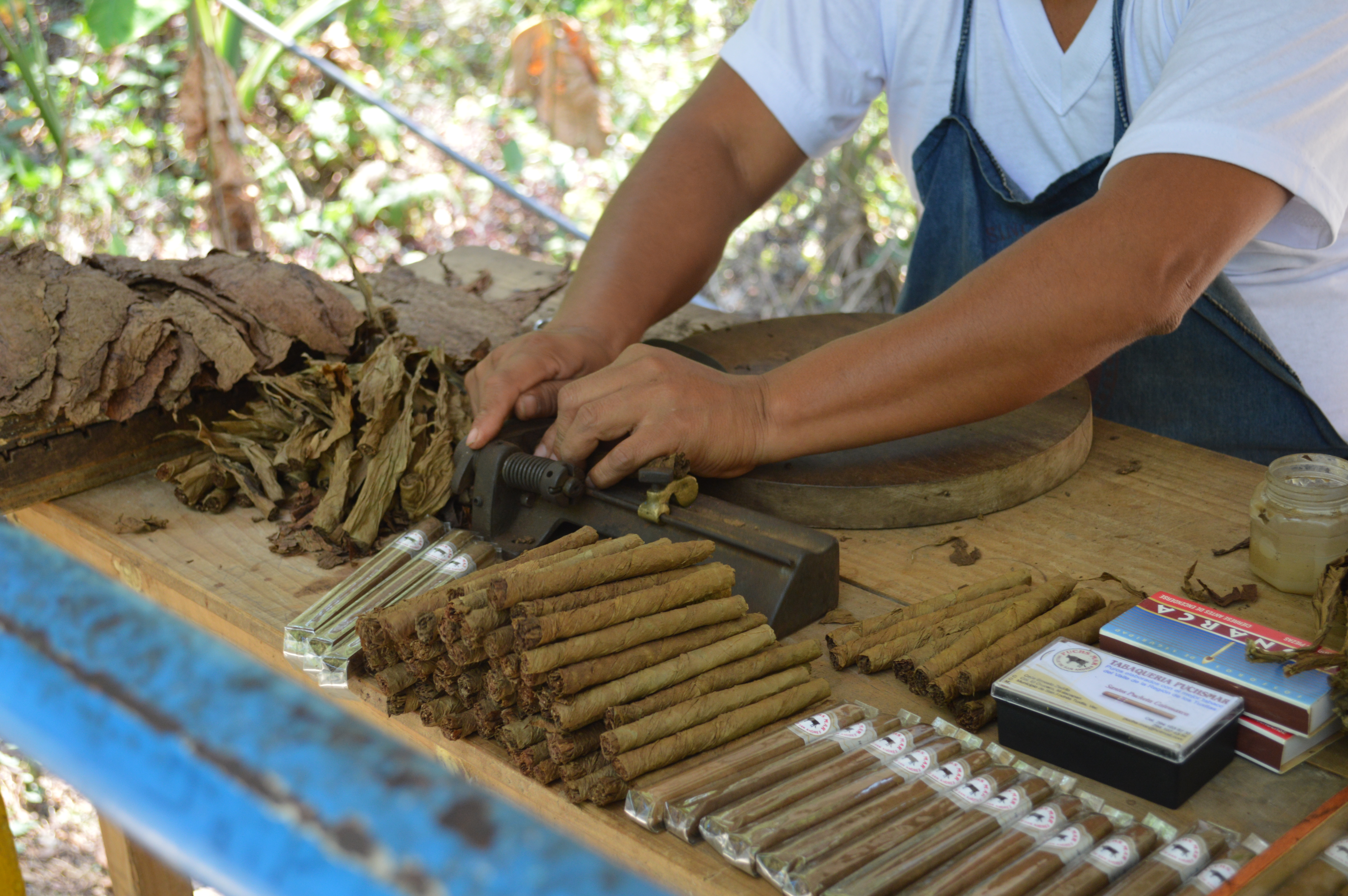 Man rolling cigars at the Eyipantla Waterfall, San Andres Tuxtla, Veracruz, Mexico